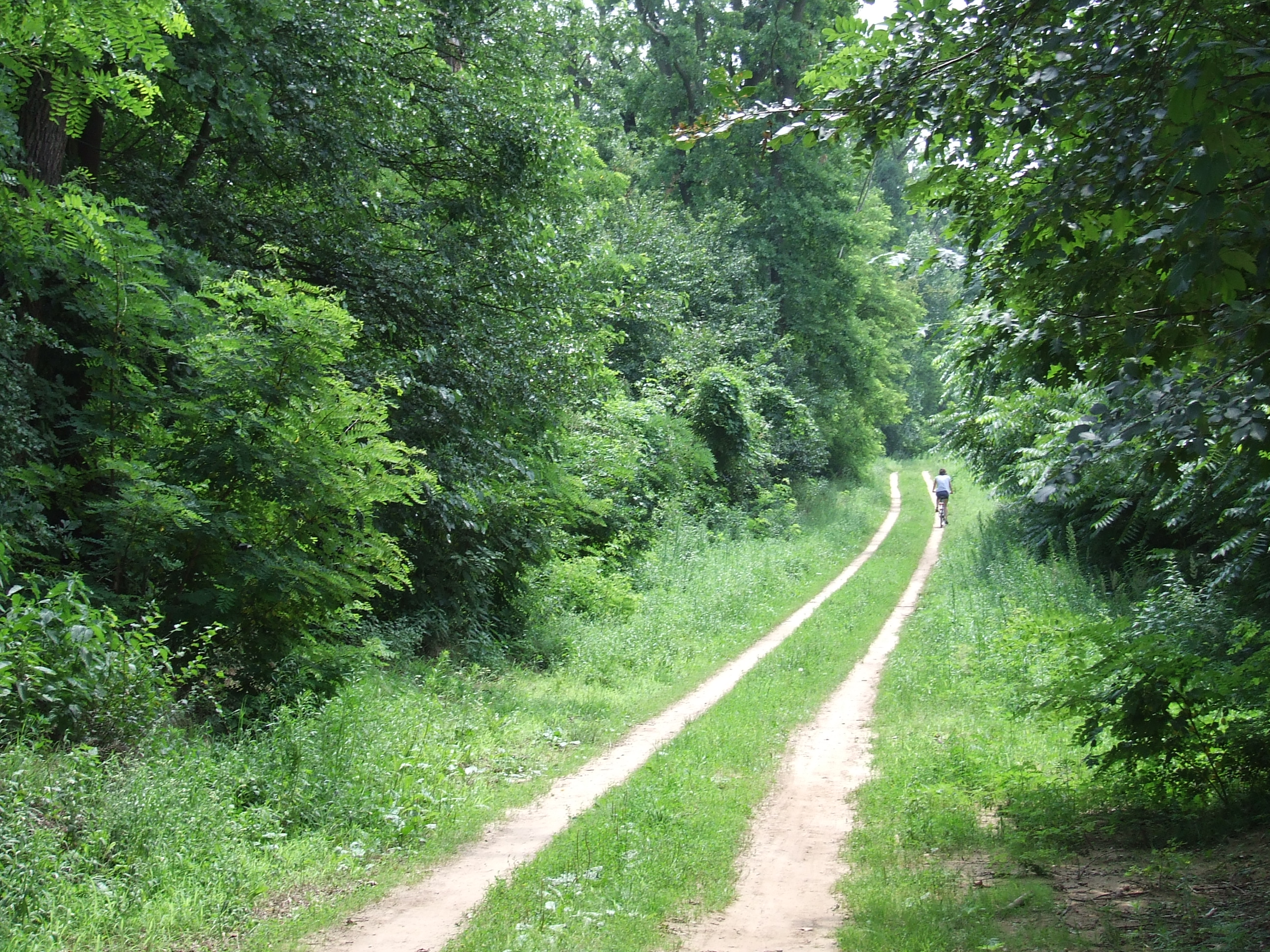 Bicycle road in the forest of Sóstógyógyfürdő, near Nyíregyháza, Hungary.